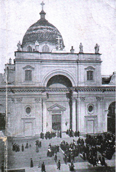 Catholic Church of St. Catherine in 1900s